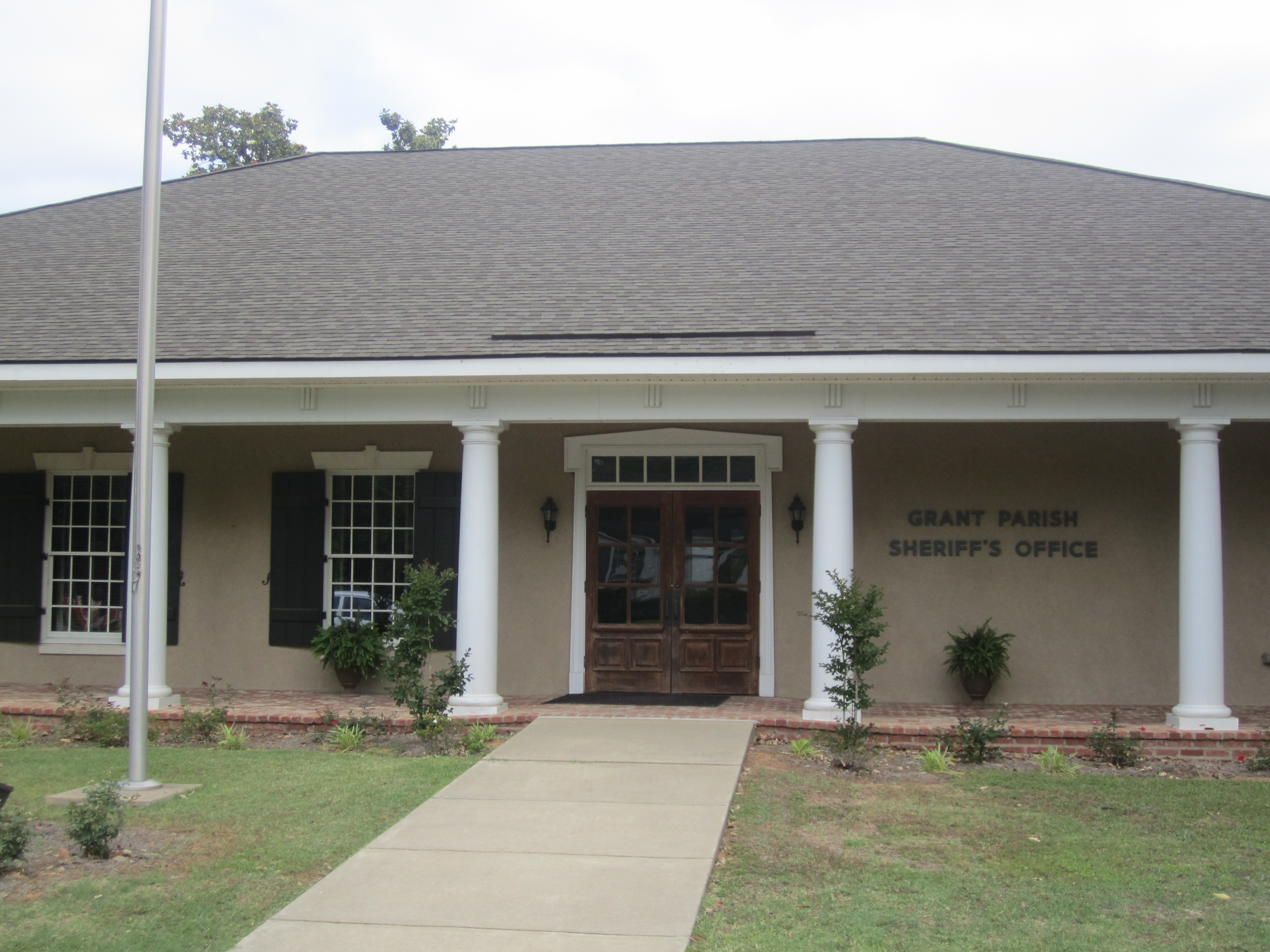 I took photo with Canon camera of Grant Parish Sheriff's Office behind the courthouse in Colfax, LA.